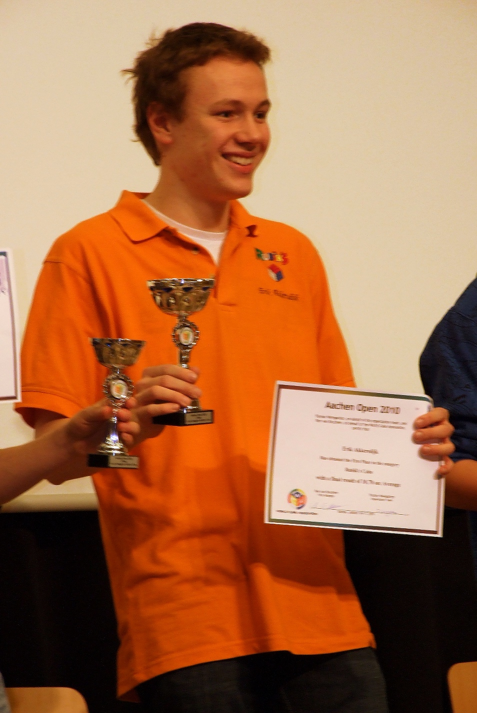 Erik Akkersdijk at the "Aachen Open"